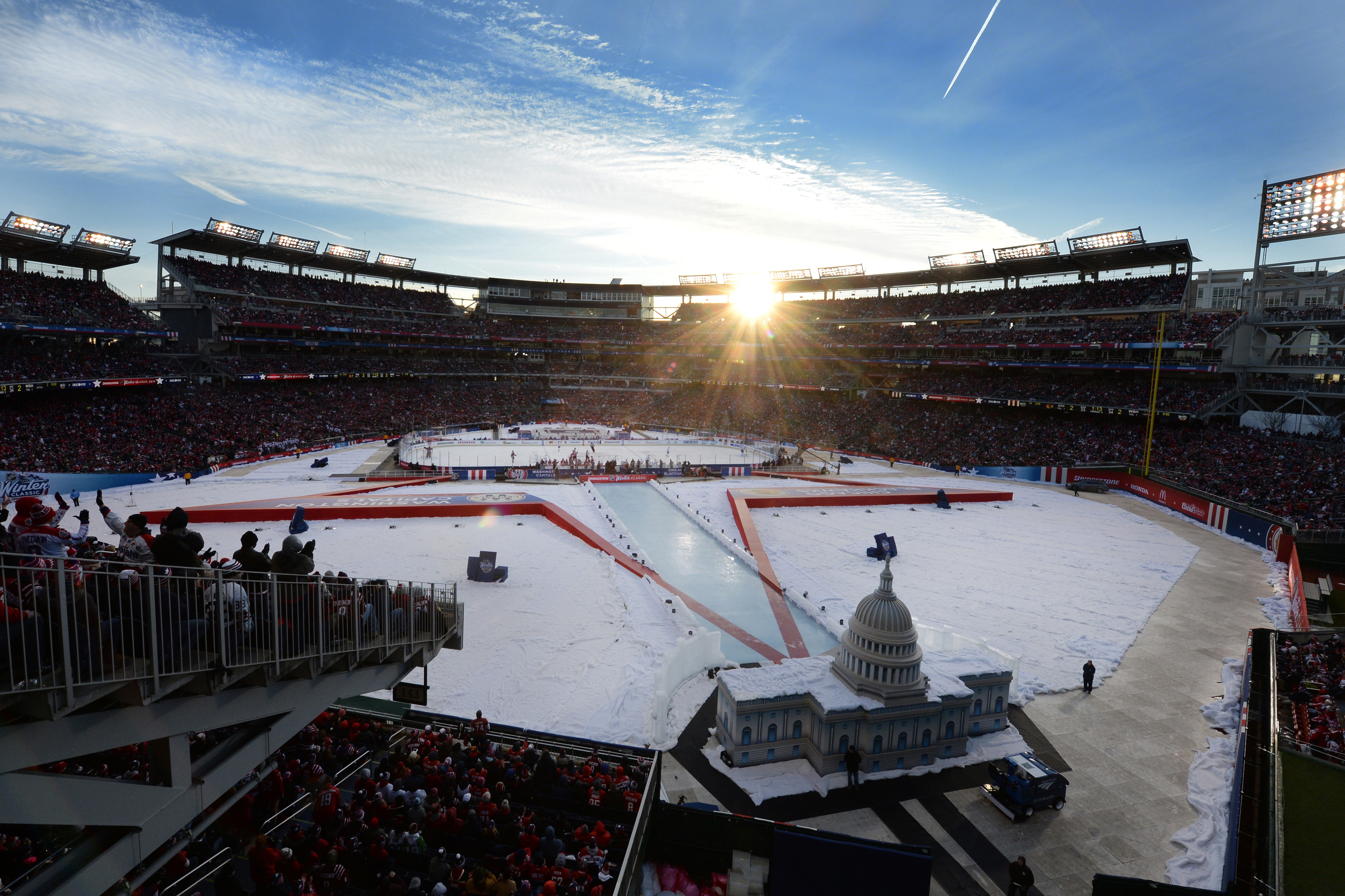 The sun sets behind Nationals Park as the Winter Classic 2015 comes to an end Jan. 1, 2015. The Washington Capitals scored with 12.9 seconds left on the clock to beat the Chicago Blackhawks 3-2. . (DoD News photo by EJ Hersom)